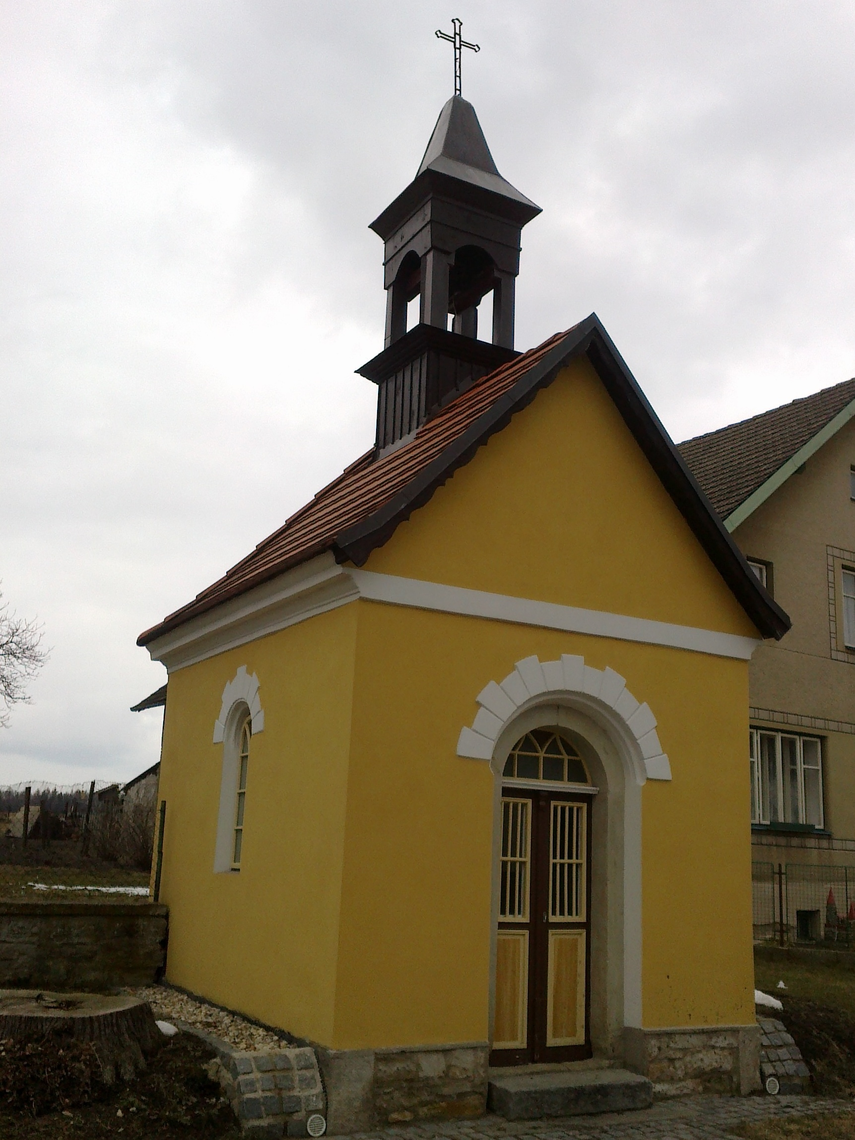 Miskolezy - chapel